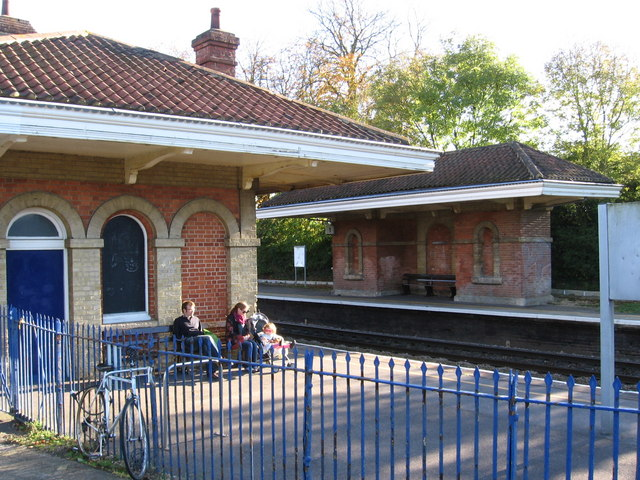 Mortimer railway station, showing detail of the station buildings.